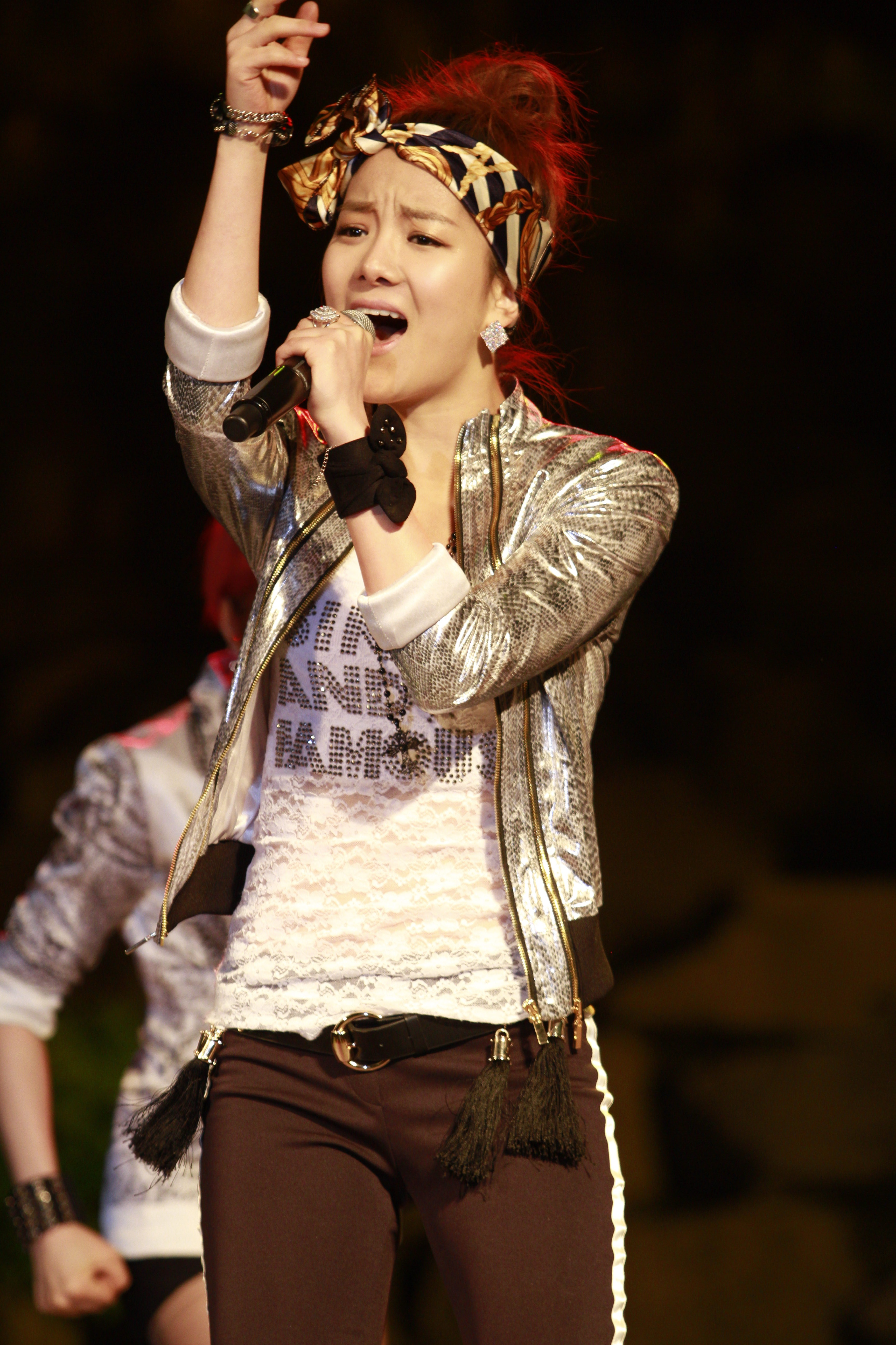 2012.05.04 Hwadojin Festival SPICA-Kim Bo Hyung.jpg